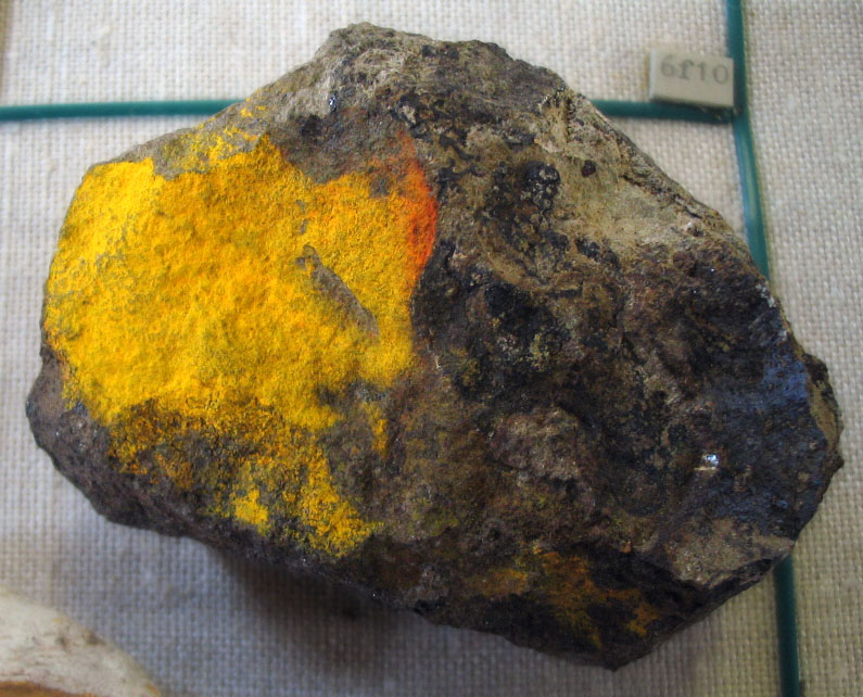 Orange-yellow earthy Hawleyite coating, from Eureka County, Nevada. Photograph taken at the Natural History Museum, London.